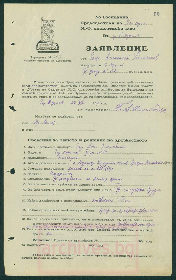 Gotse_Kalabakov's Document